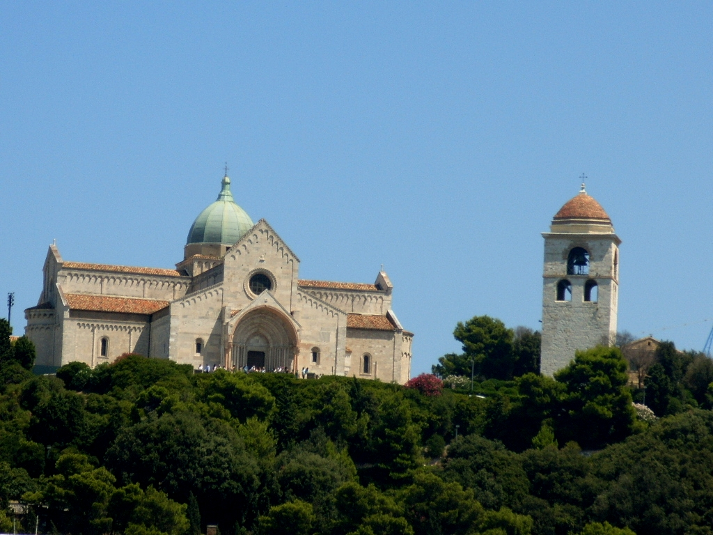 Saint Ciriaco Cathedral in Ancona